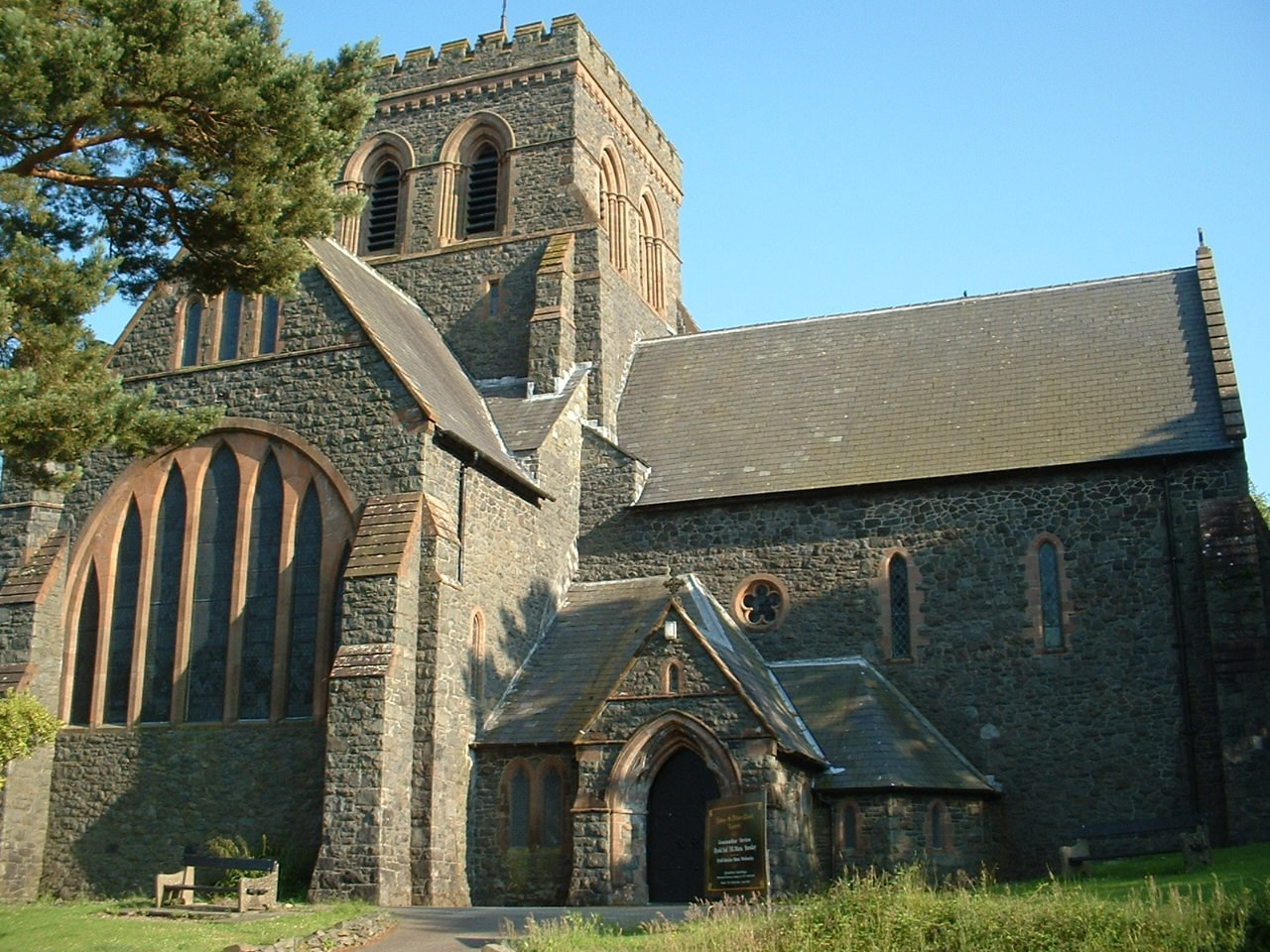 St. Padarn's Church, Llanberis. Taken by Necrothesp, 26 June 2005.